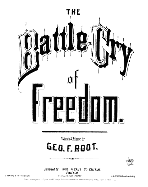 Cover of sheet music for "Battle Cry of Freedom" words and music by Geo. F. Root, Chicago: Root & Cady, 1862